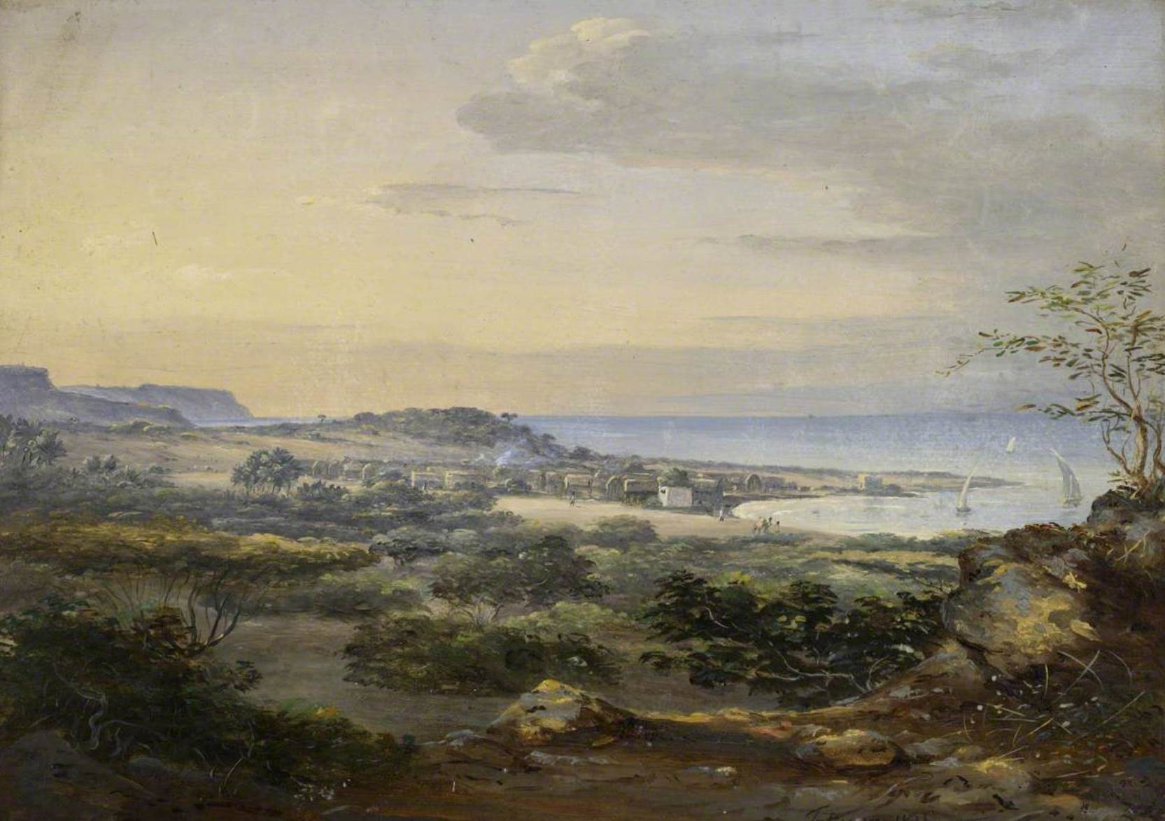 Johann Martin Bernatz, Tajura (Tadjoura) landscape with a small town beside the bay in 1841.